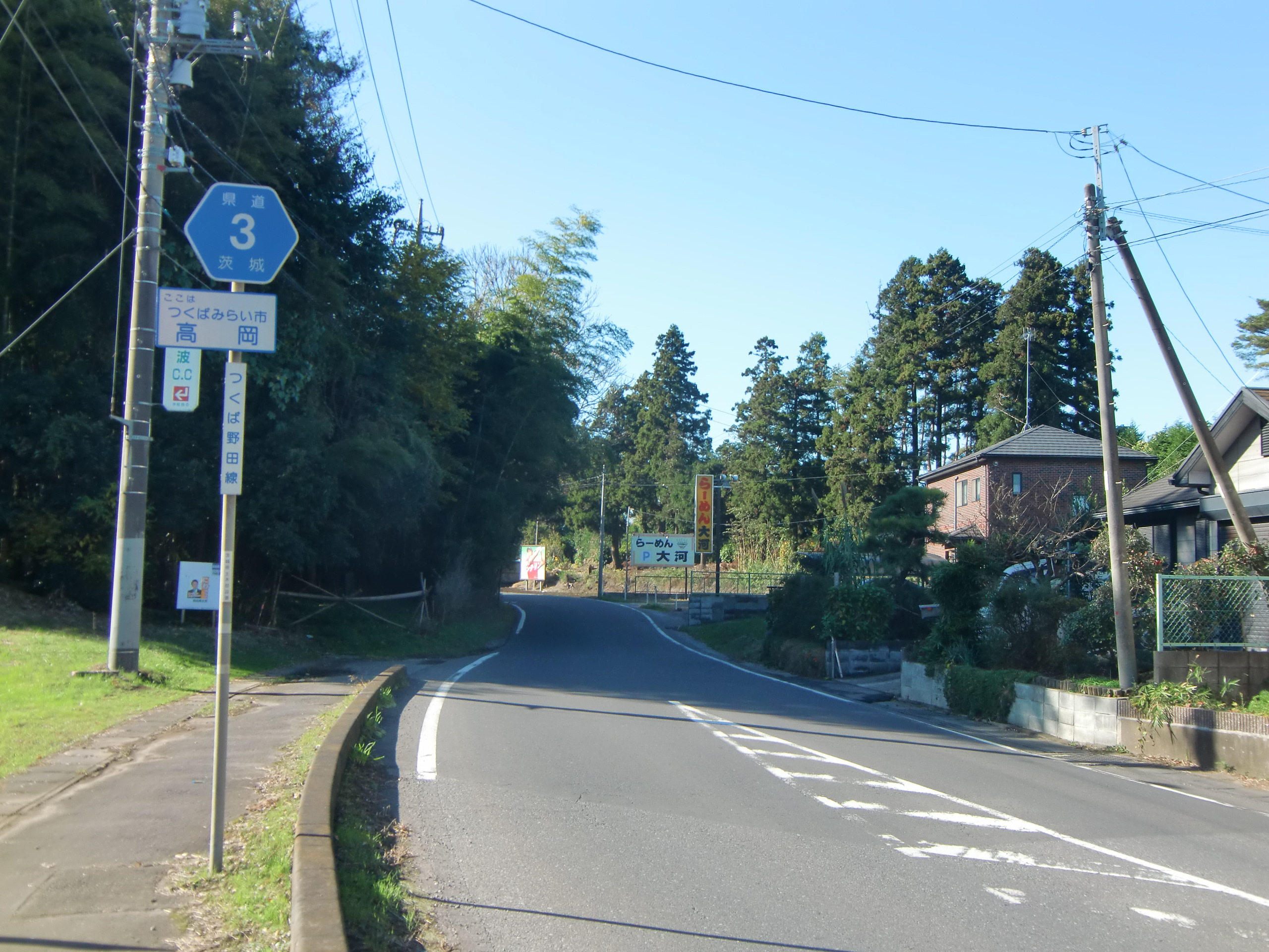 The Ibaraki Prefectural Road Route 3 in Takaoka, Tsukubamirai City